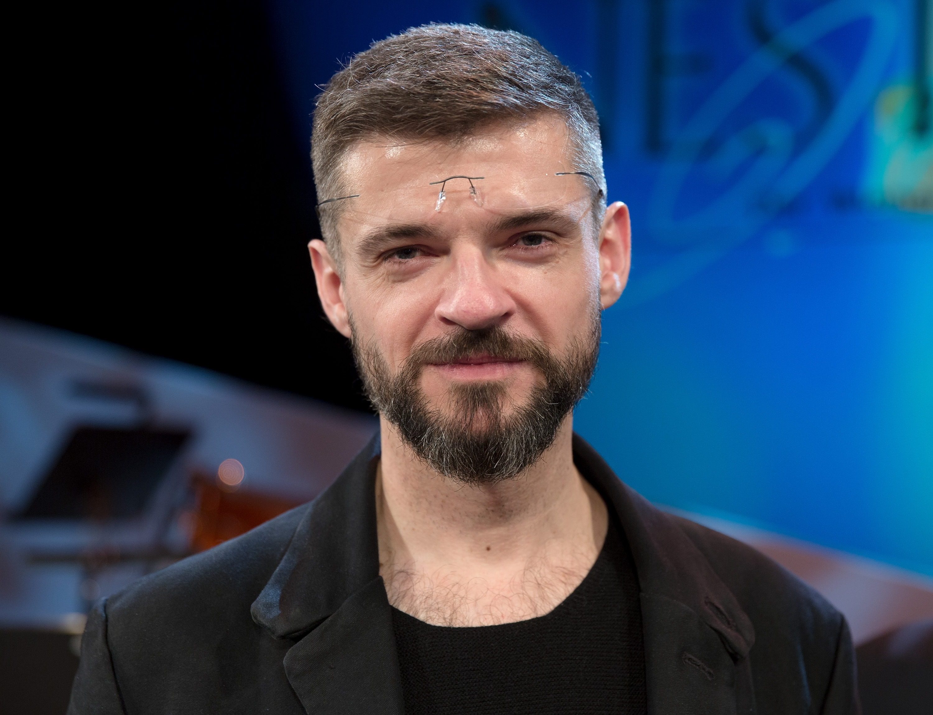 Dušan David Pařízek at the Nestroy Theatre Awards 2015 (Ronacher, Vienna, Austria).